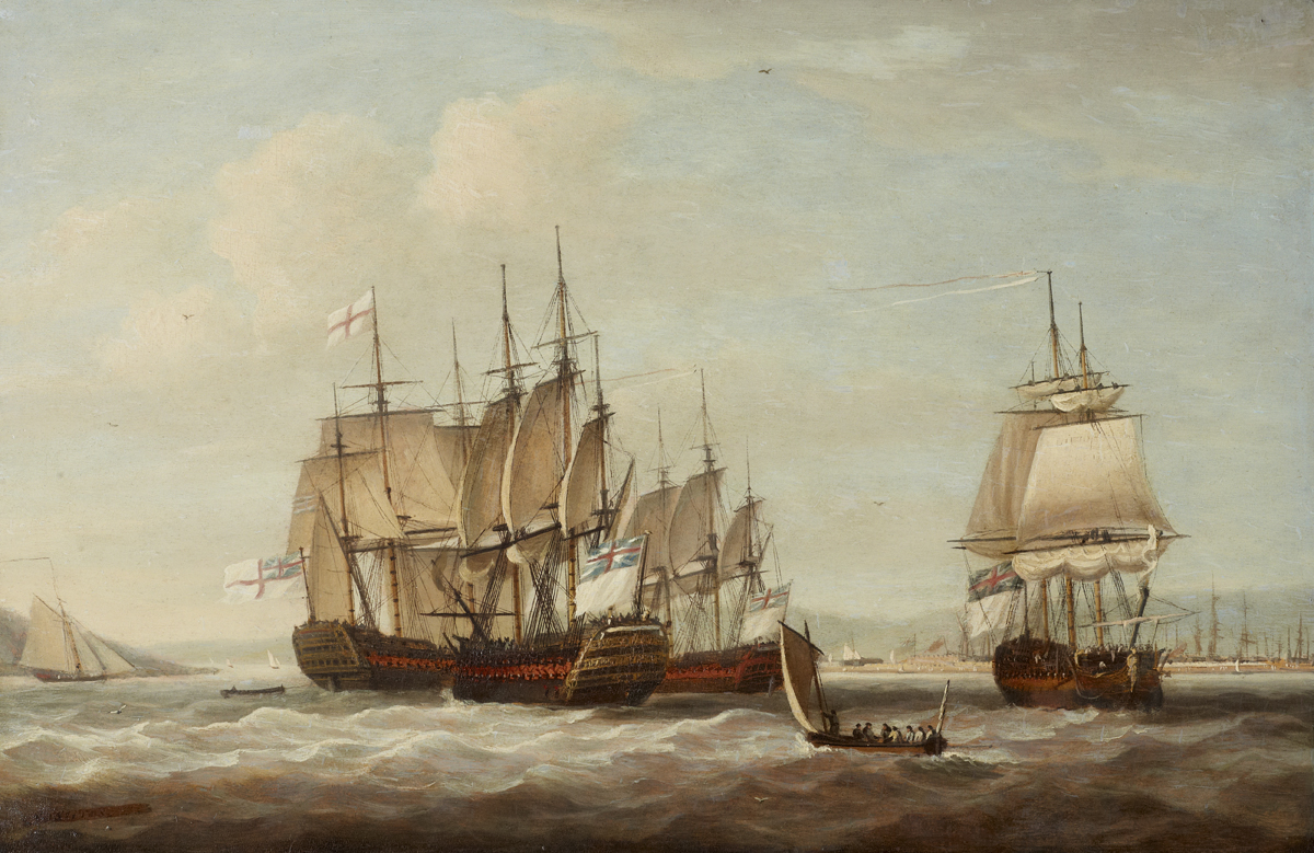 Admiral Sir George Brydges Rodney (1719–1792), 1st Baron Rodney, with French Captive Ships after the Battle of the Saints, 12 April 1782